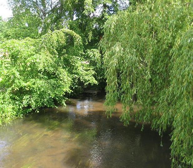 Stream Plane nearby the New Mill Gömnigk. The village Gömnigk is an incorporated part of the town Brück in the district Potsdam Mittelmark, state Brandenburg, Germany. Gömnigk appertains to the natural preserve Naturpark Hoher Fläming.